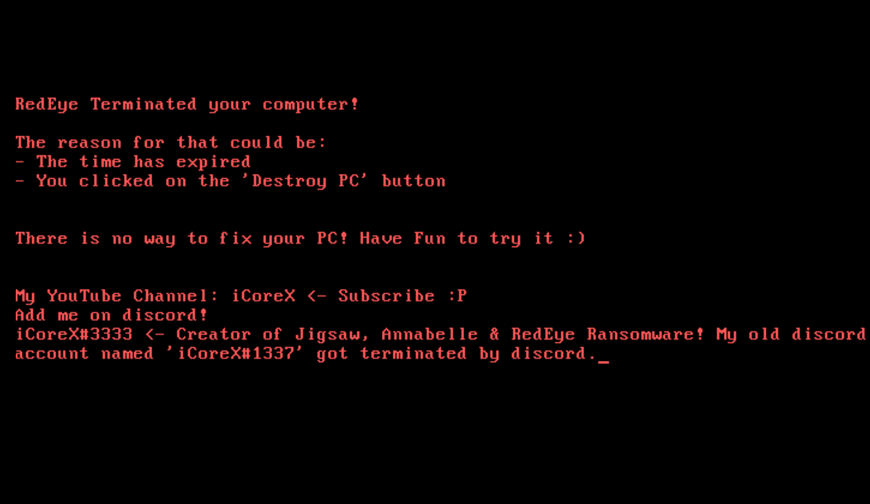 RedEye´s death screen